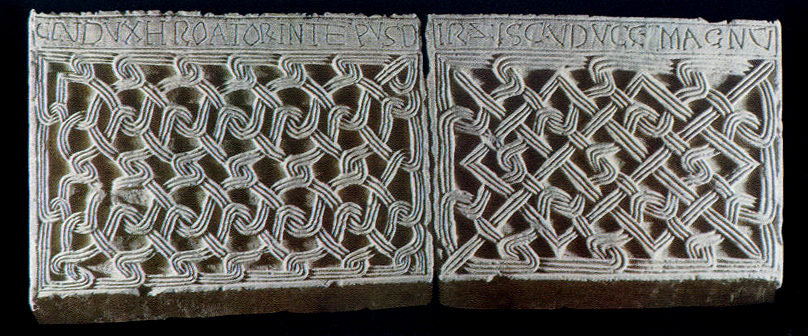 A Photo of a famous pleter in Croatia. Taken in Zagreb Museum.